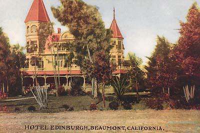 Unknown published post card, Photo is not created by user, rather taken from whose policy on post cards state "Post cards are vintage images from the early 1900s". Copyright laws for these images are inapplicable because of their date.